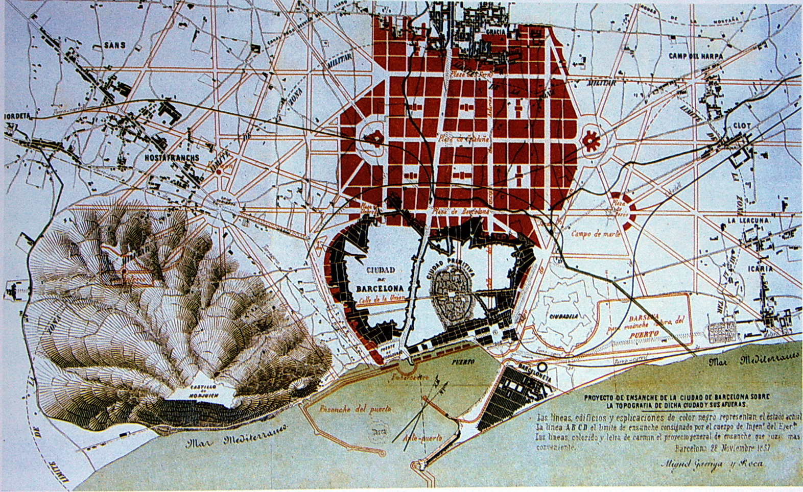 Eixample map of Barcelona. Map of Miquel Garriga's project for the "Barcelona's eixample bid" which was won by the "Plan Cerdà" 1859.